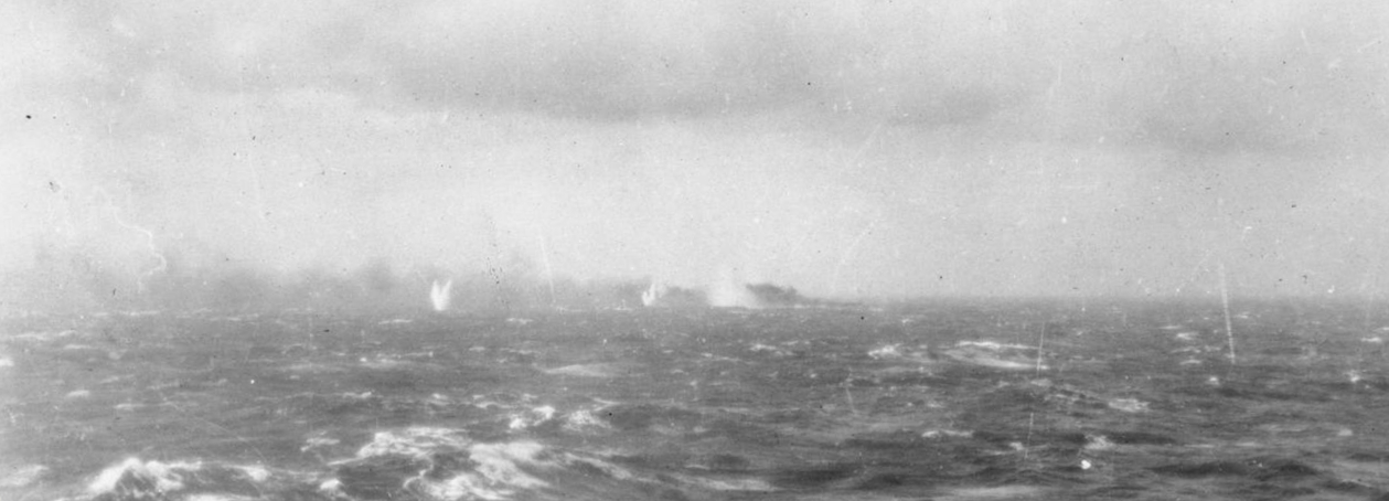 The sinking German battleship Bismarck on fire in the distance, surrounded by shell splashes. The photo was taken from one of the Royal Navy warships chasing.